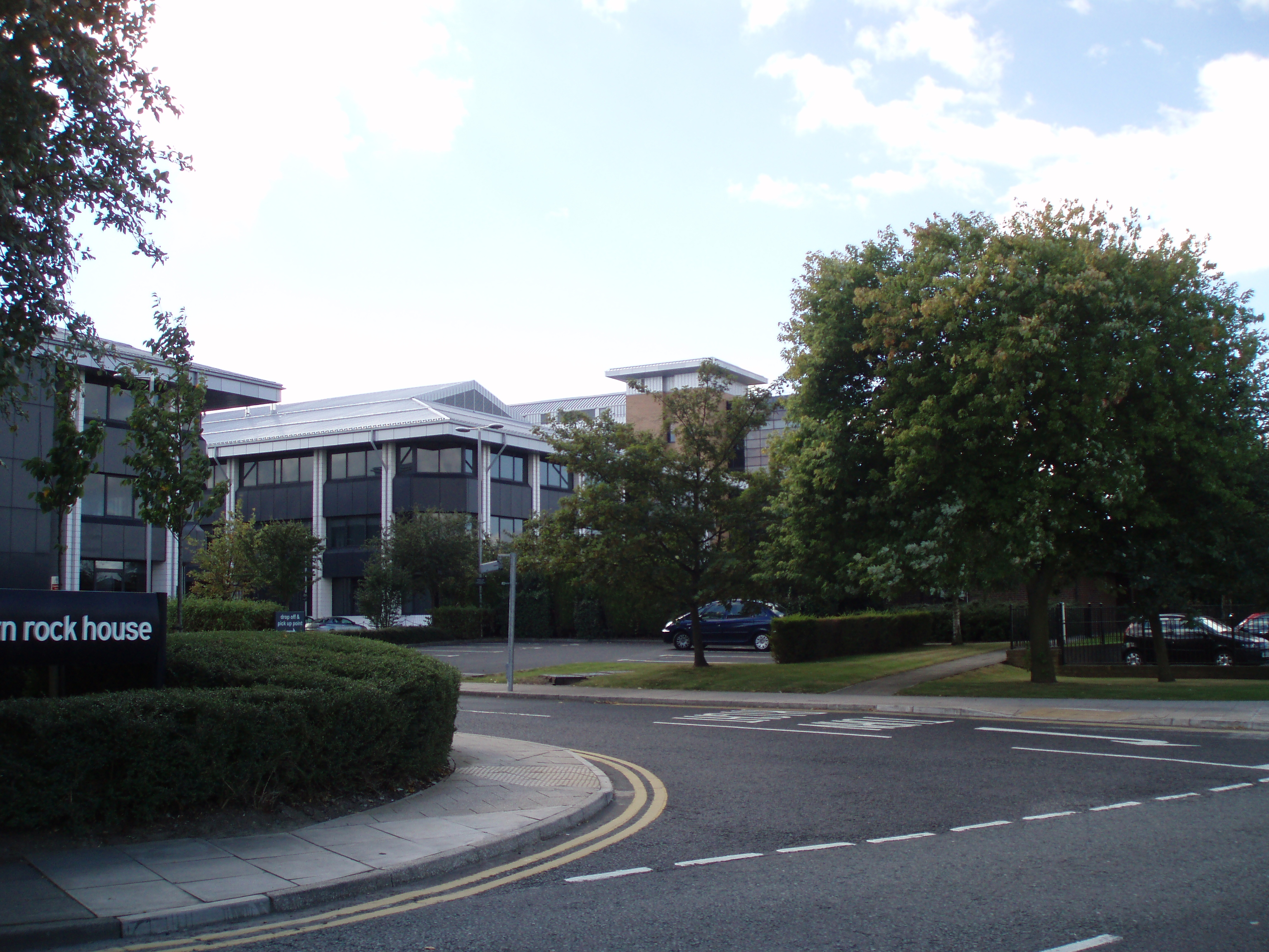 A photograph of part of Northern Rocks HQ. At Regent Centre, in Gosforth, Newcastle upon Tyne, England (September 2007)